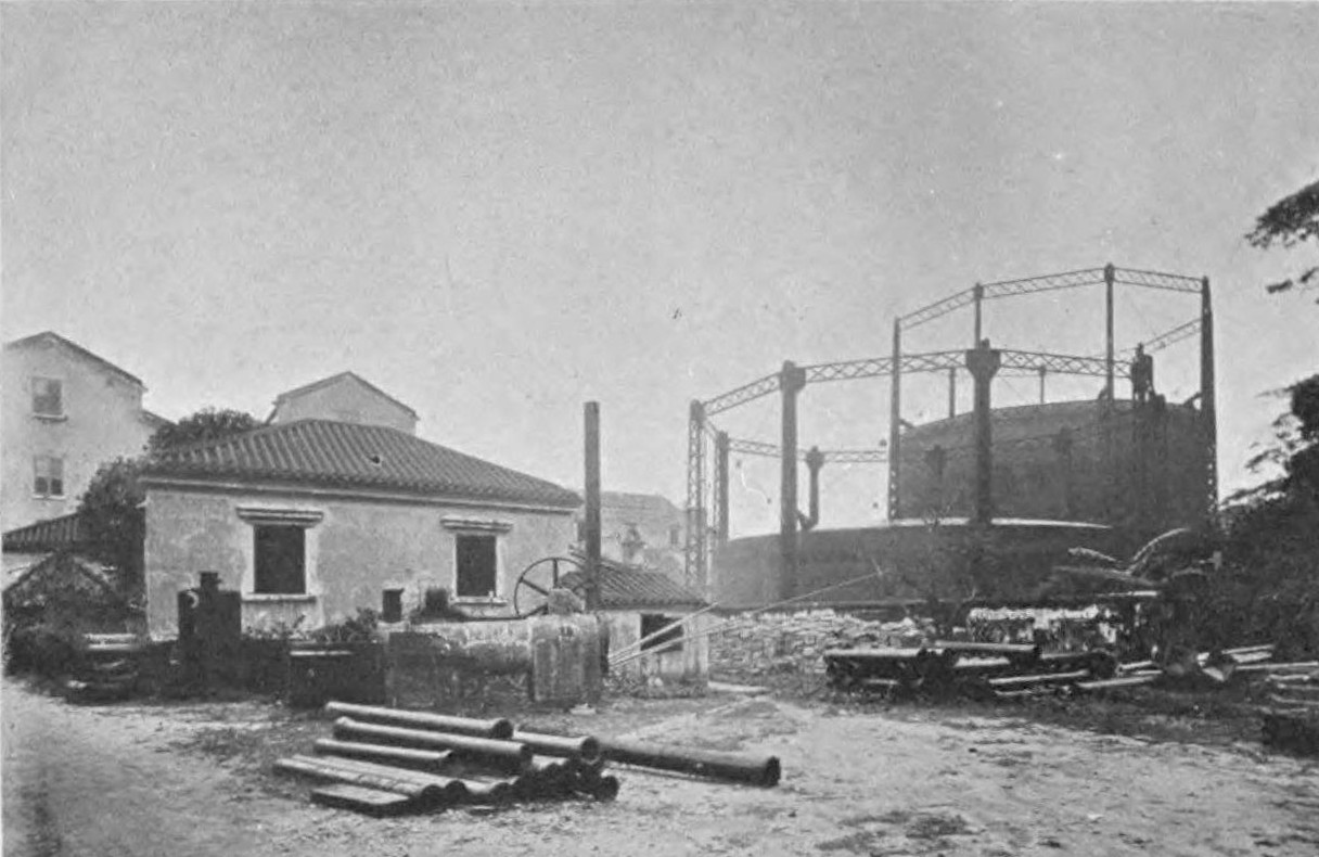 Hong Kong and China Gas Company (detail)